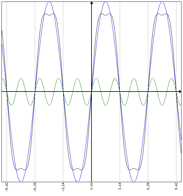 Sinewave with 3rd harmonic drawn with help of the php script from Daniel Schmidt-Loebe